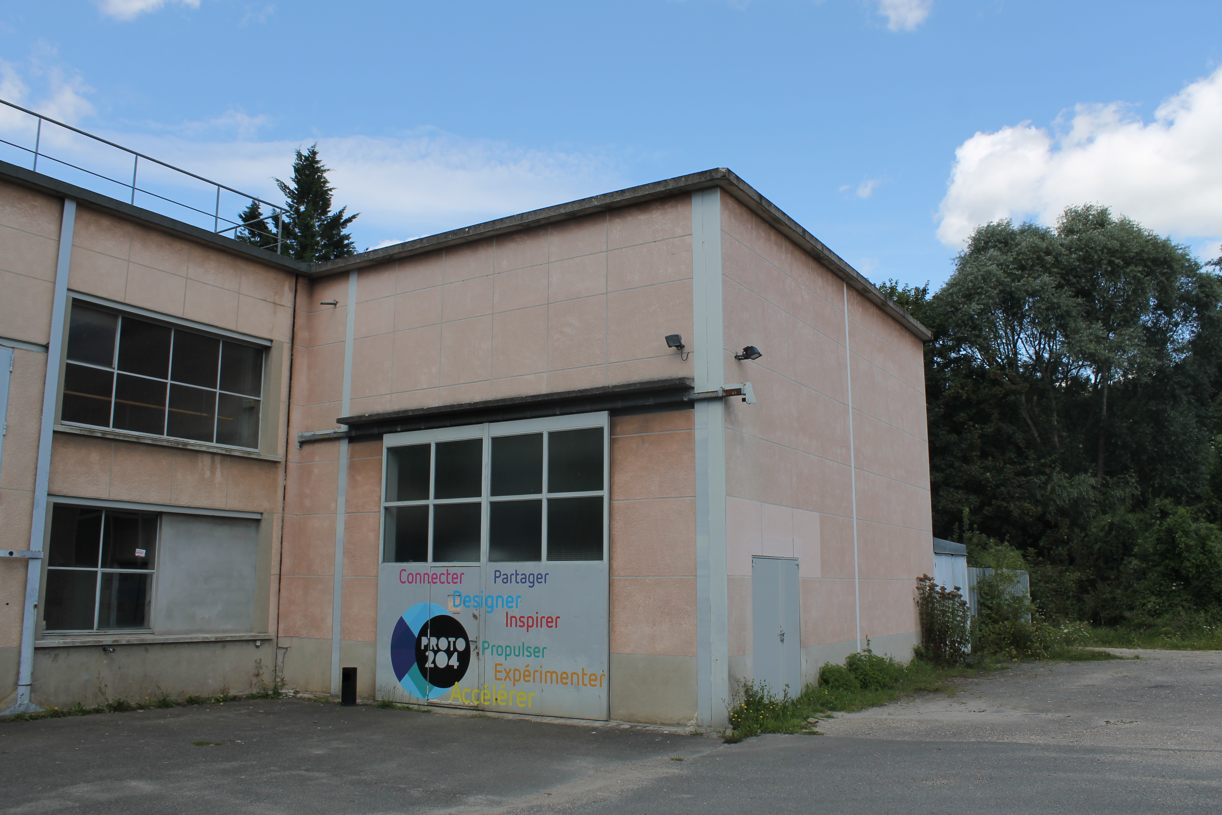 The Proto204, a third place (coworking space) located in the campus of the University of Paris-Sud, in the scientific cluster of Paris-Saclay, France.